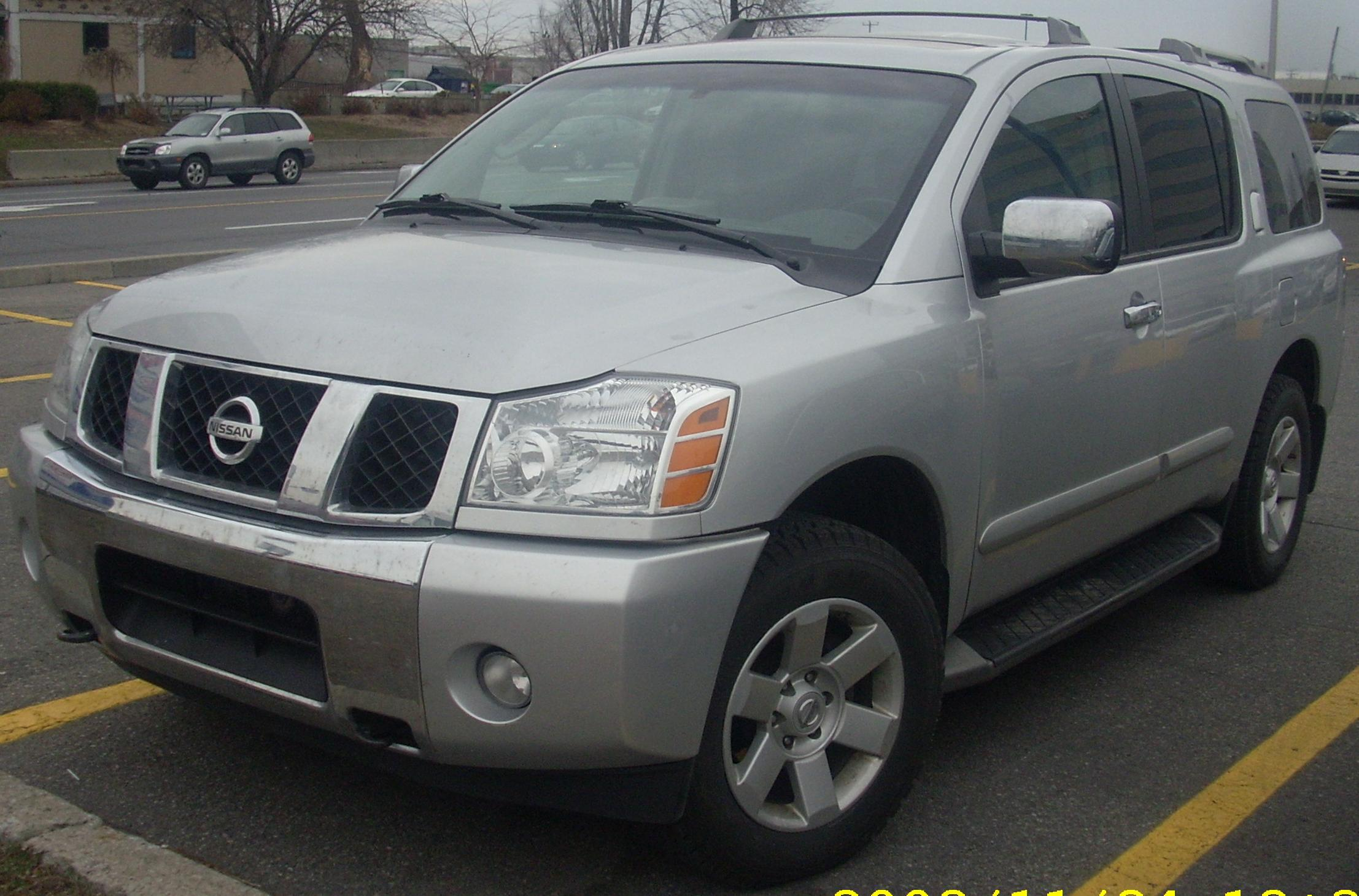 2004 Nissan Pathfinder Armada photographed in Montreal, Quebec, Canada.